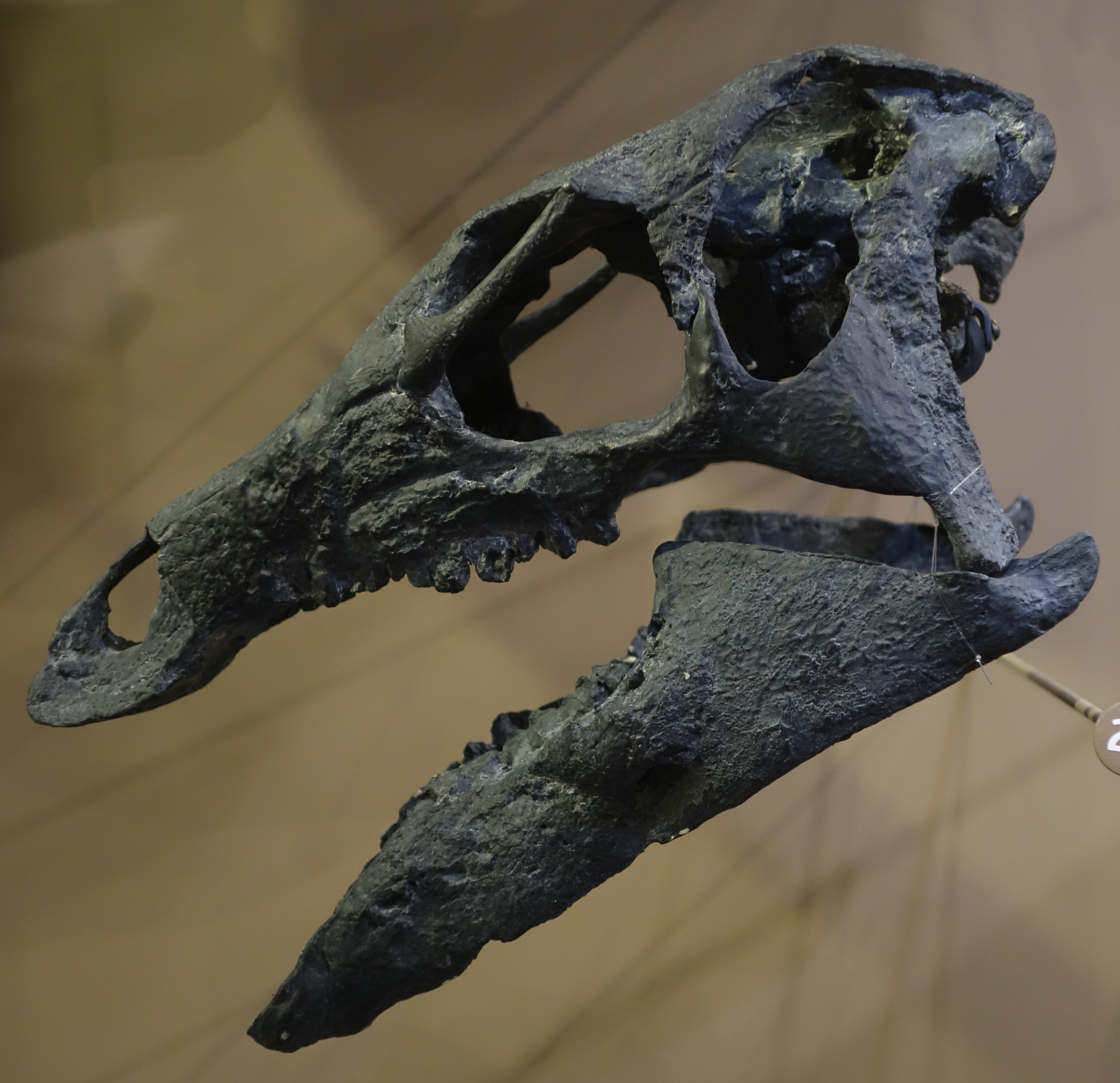 Skull cast of Camptosaurus sp., on display at the Natural History Museum of Utah, Salt Lake City.